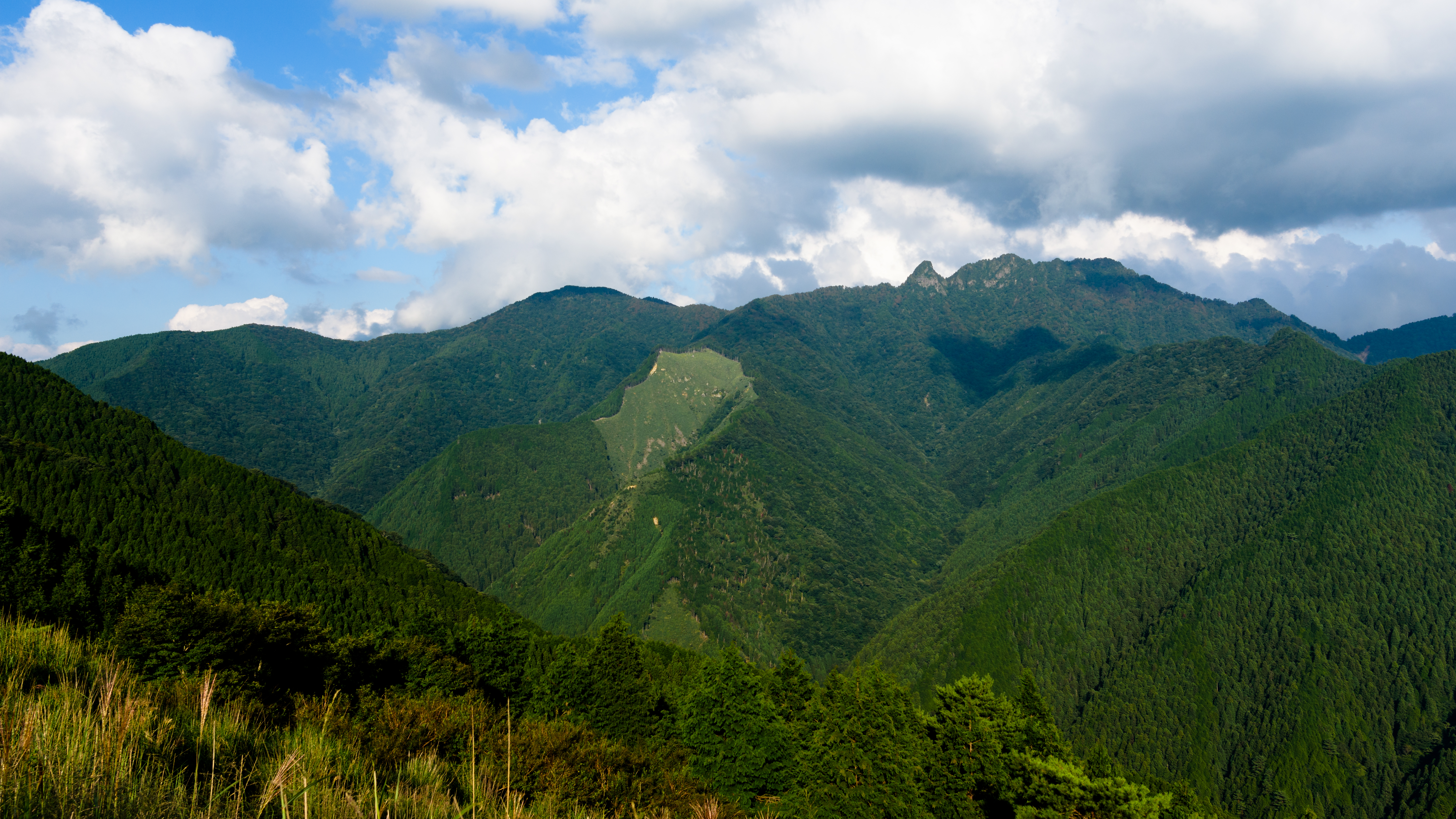 Mount Inamura (Inamuragatake, 1,726,metres, right) and Omine Mountains from Mount Kan'onmine, Tenkawa, Nara.